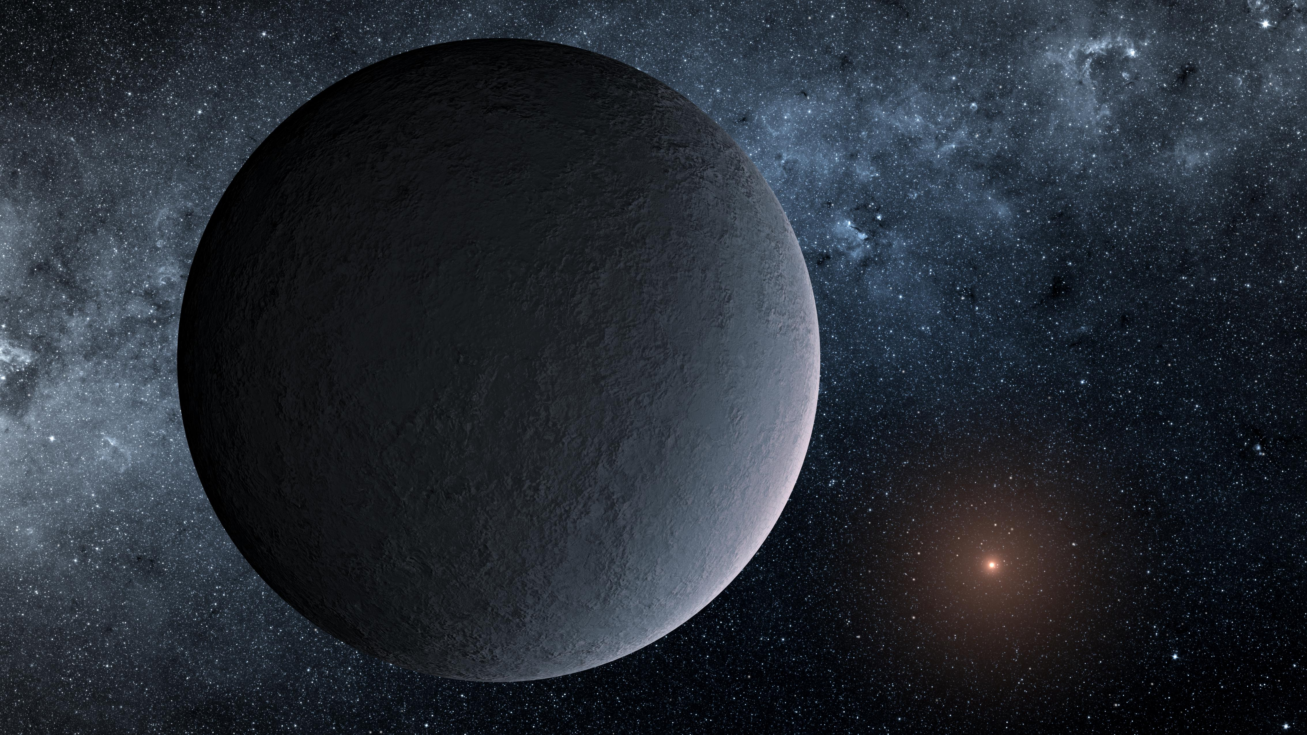 PIA21430: Iceball Planet Artist's Concept This artist's concept shows OGLE-2016-BLG-1195Lb, a planet discovered through a technique called microlensing. The planet was reported in a 2017 study in the Astrophysical Journal Letters. Study authors used the Korea Microlensing Telescope Network (KMTNet), operated by the Korea Astronomy and Space Science Institute, and NASA's Spitzer Space Telescope, to track the microlensing event and find the planet. Although OGLE-2016-BLG-1195Lb is about the same mass as Earth, and the same distance from its host star as our planet is from our sun, the similarities may end there. This planet is nearly 13,000 light-years away and orbits a star so small, scientists aren't sure if it's a star at all. NASA's Jet Propulsion Laboratory manages the Spitzer Space Telescope mission for NASA's Science Mission Directorate, Washington. Science operations are conducted at the Spitzer Science Center at Caltech in Pasadena, California. Spacecraft operations are based at Lockheed Martin Space Systems Company, Littleton, Colorado. Data are archived at the Infrared Science Archive housed at the Infrared Processing and Analysis Center at Caltech. Caltech manages JPL for NASA. For more information about the Spitzer mission, visit and